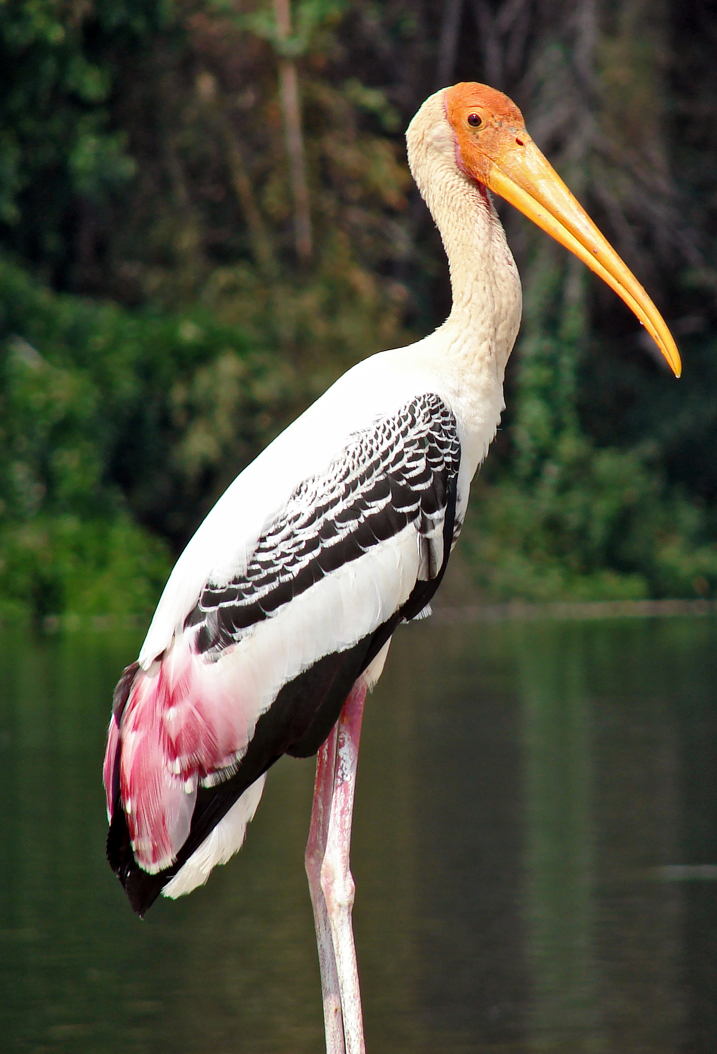 A painted stork standing tall at the Ranganthittu Bird Sanctuary, Karnataka, India.